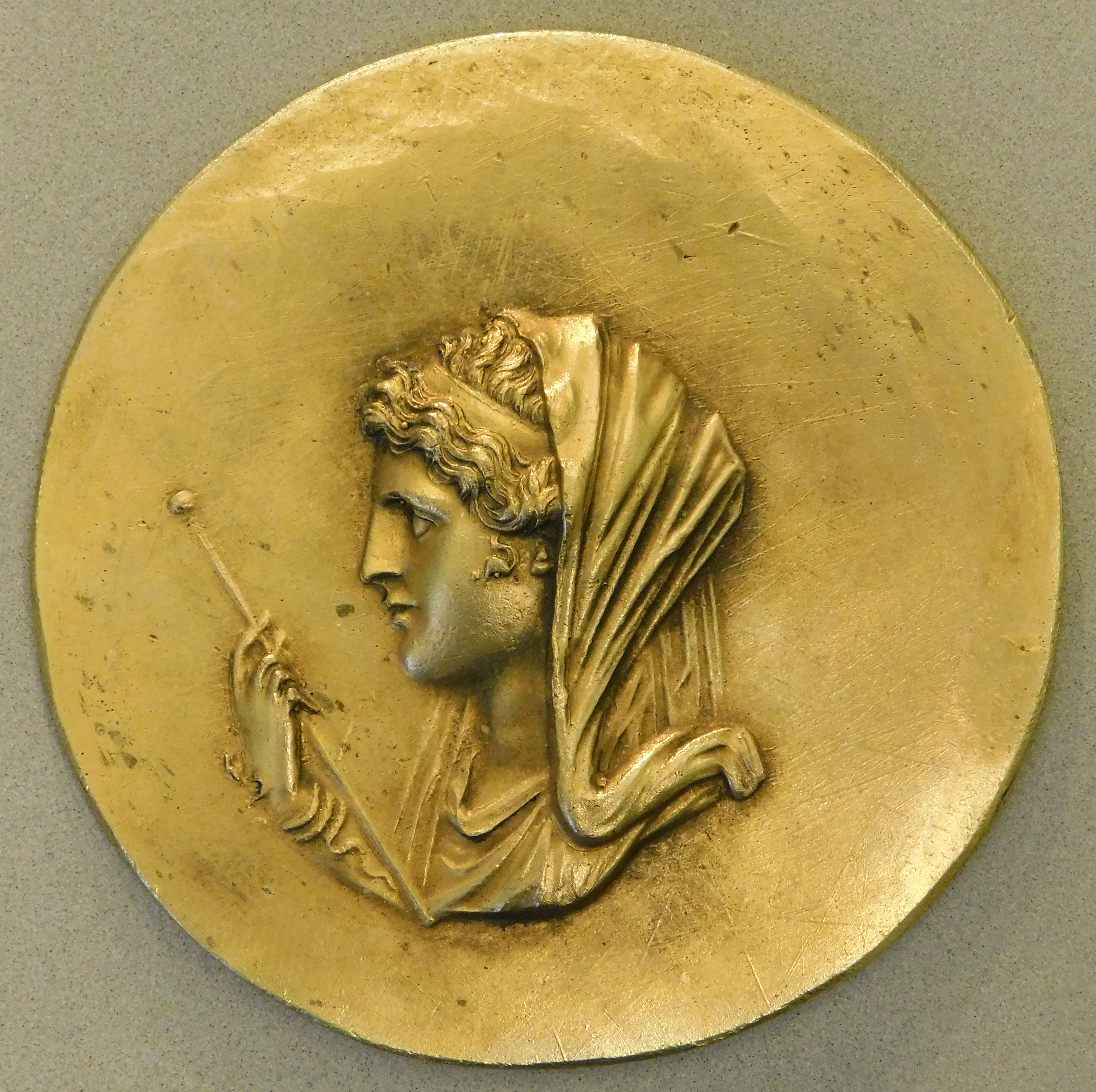 Medals in the Bode-Museum